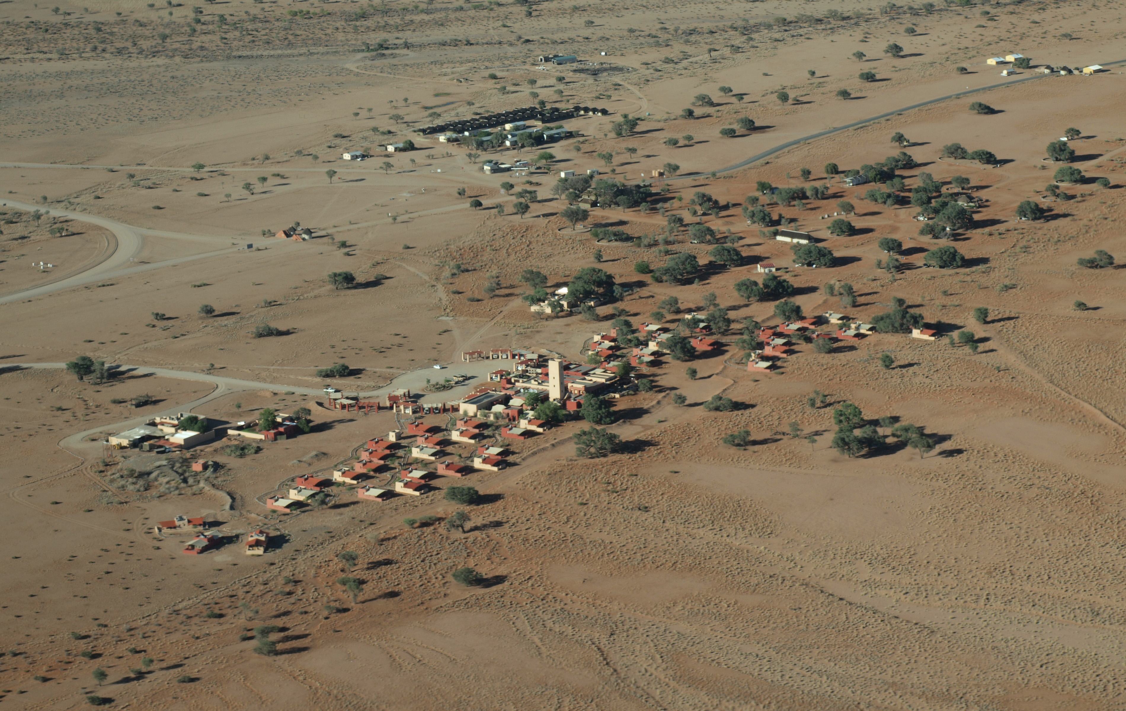 Nabimia, Sesriem. Aeroview, Sesriem.